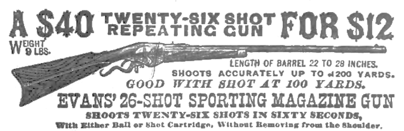 Part of an advertisement for the Evans' Repeating Rifle Co. featured in the Spirit of the Times Magazine 1876